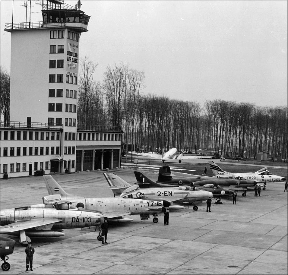 NATO aircraft in front of the tower of Bitburg Air Base, Rheinland-Pfalz (West Germany) in 1959: (front to back) the nose of a Canadair Sabre, a West German Luftwaffe Republic F-84F Thunderstreak, a Royal Netherlands Air Force North American F-86K Sabre, a French Air Force Dassault Mystère IVA, a Royal Air Force Hawker Hunter, a Belgian Air Force Avro Canada CF-100 Canuck, and a U.S. Air Force North American F-100C Super Sabre from the hosting 36th Tactical Fighter Wing, 22nd TFS. In the background is a USAF Douglas C-47 Skytrain.